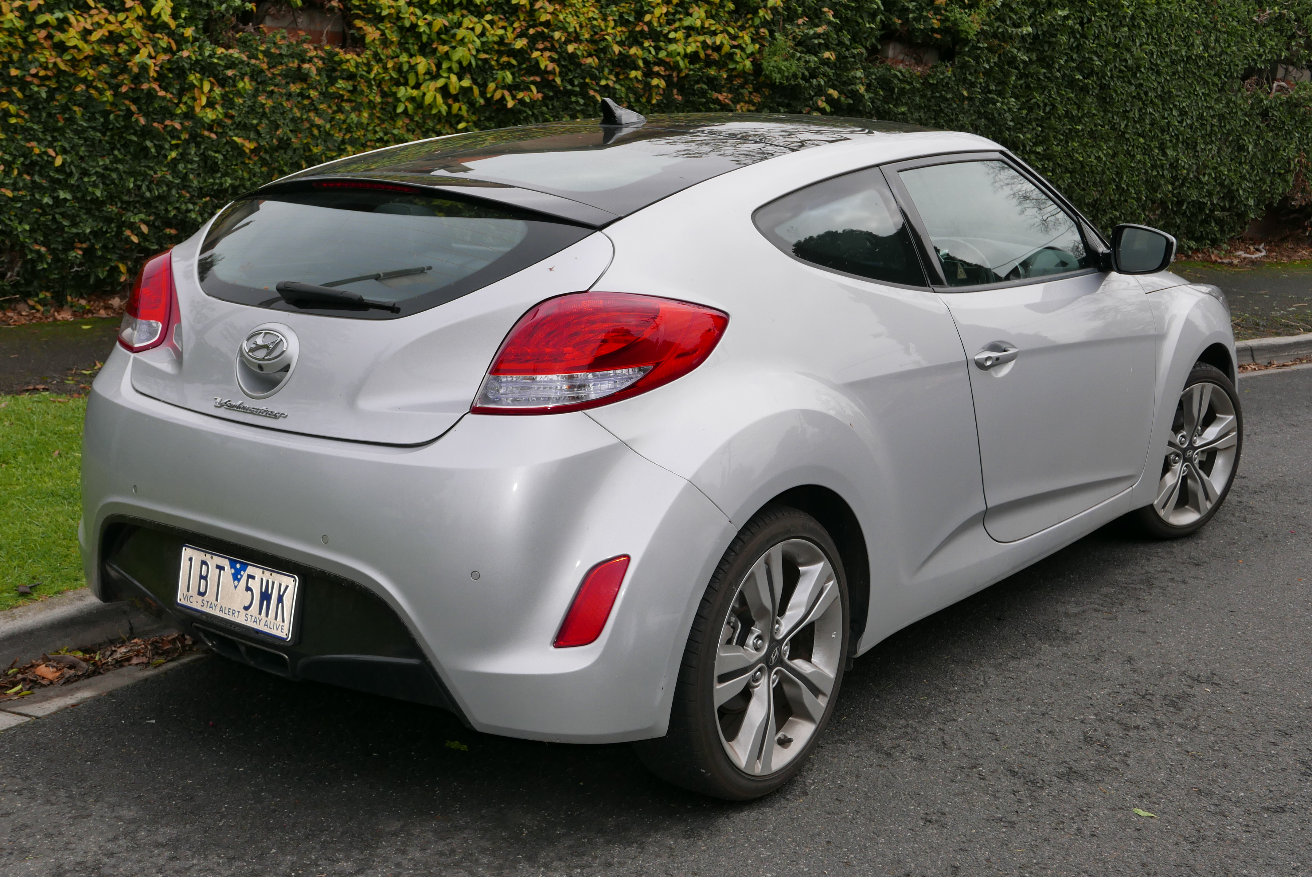 2013 Hyundai Veloster (FS2) + hatchback. Photographed in Ivanhoe, Victoria, Australia. Vehicle registration enquiry resultsJurisdictionVictoriaRegistration1BT5WKChassis codeKMHTC61DVDU168190Engine codeG4FDDU436503Compliance date2013-09Year of manufacture2013